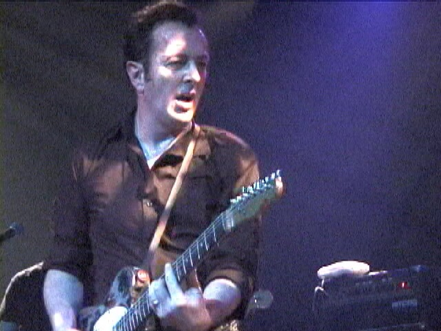 Joe Strummer performing at St Ann's Warehouse, Brooklyn - NYC Apr 5 2002